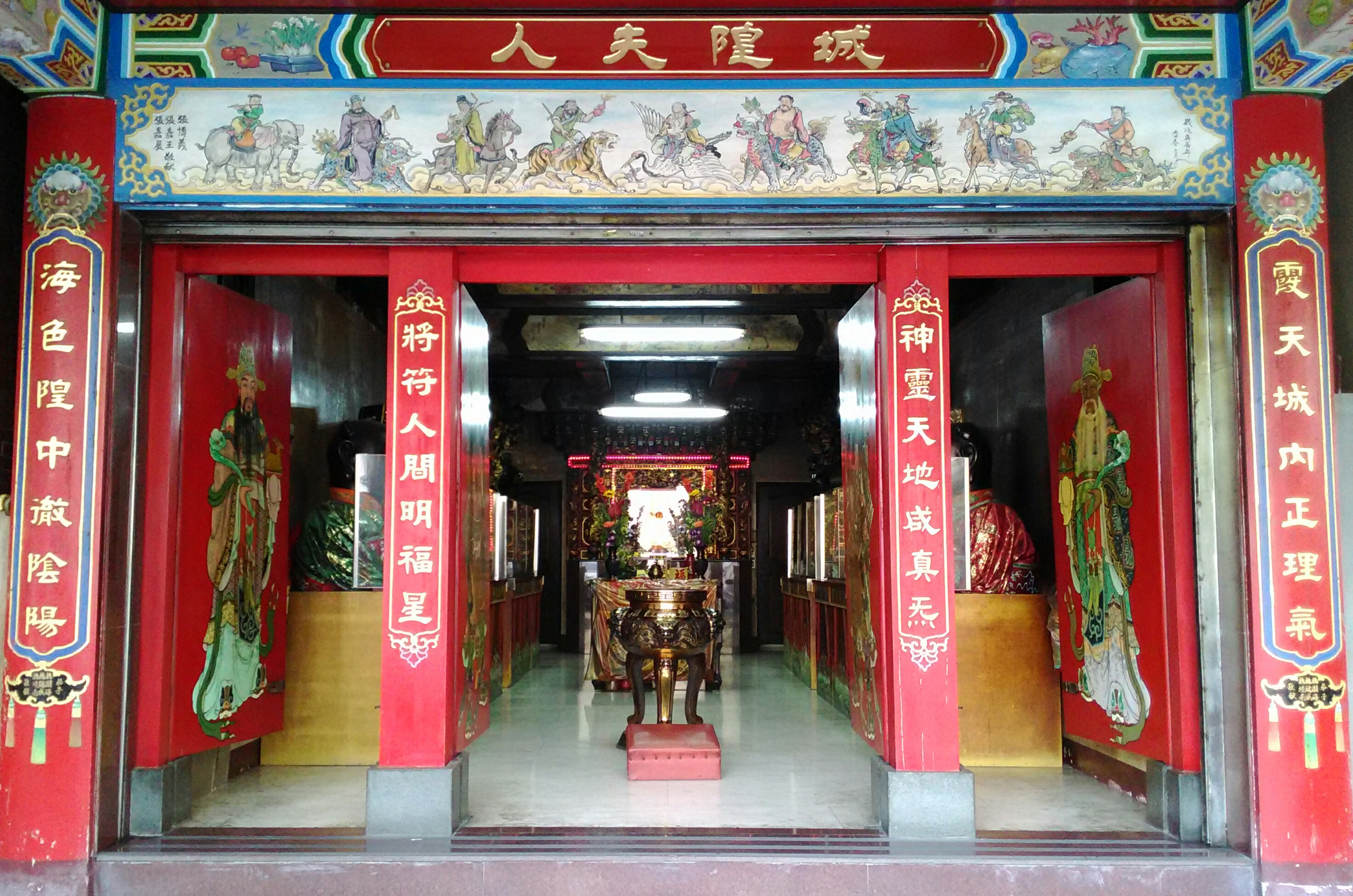 高雄市霞海城隍廟設專門奉祀城隍夫人之處